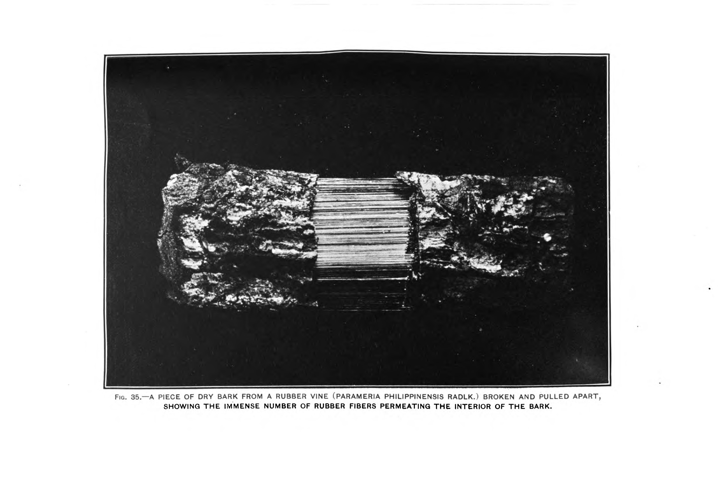 Fig. 35. A piece of dry bark from a rubber vine (Parameria philippinensis Radlk. =P. laevigata) broken and pulled apart, showing the immense number of rubber fibers permeating the interior of the bark